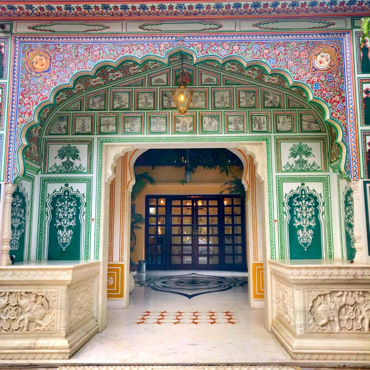 Gate of Shahpura House, Shekhawati, Rajputana build by Shekhawat Ruler depicting Shekhawati Painting and artistic work from Shekhawati region